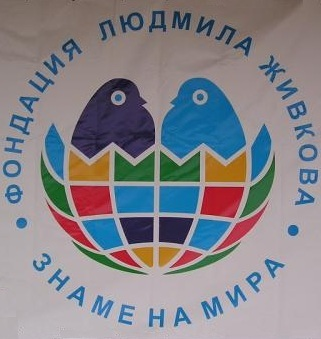 International Assembly "Banner of Peace"